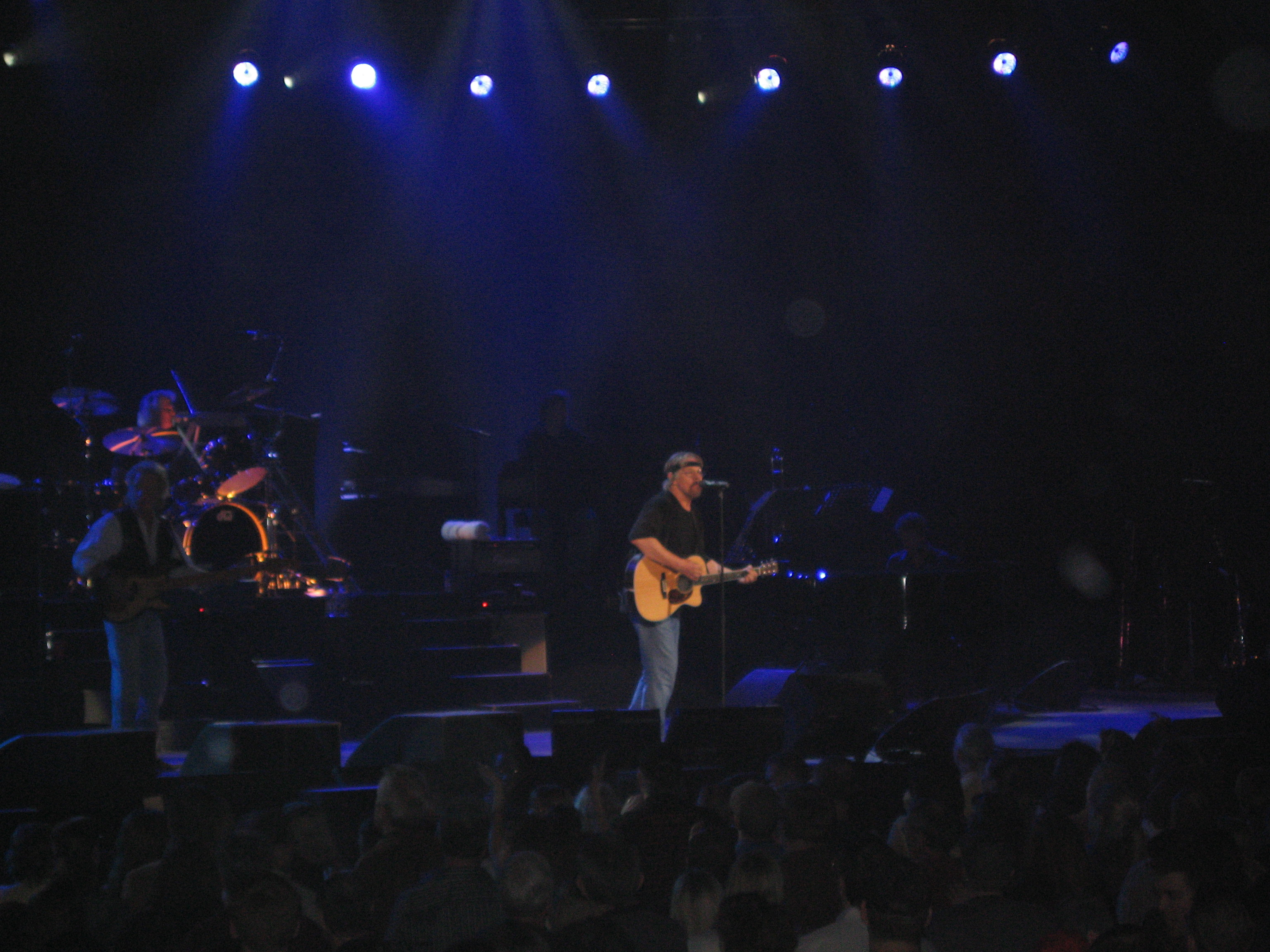 Bob Seger performing at Mohegan Sun Casino; Uncasville, CT, 2007.